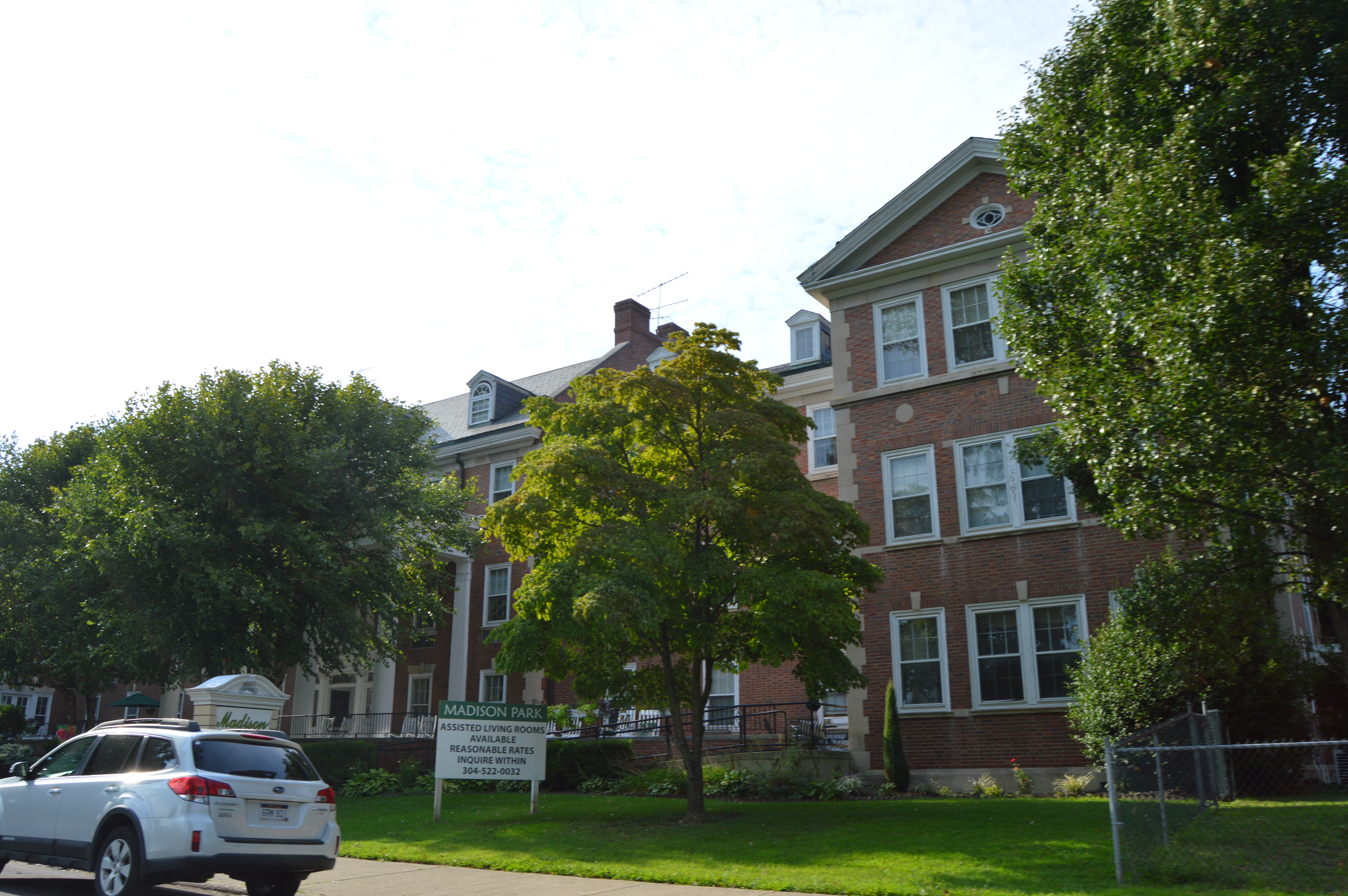 Front of the Foster Memorial Home, located at 700 Madison Avenue in Huntington, West Virginia, United States. Built in 1924, it is listed on the National Register of Historic Places.